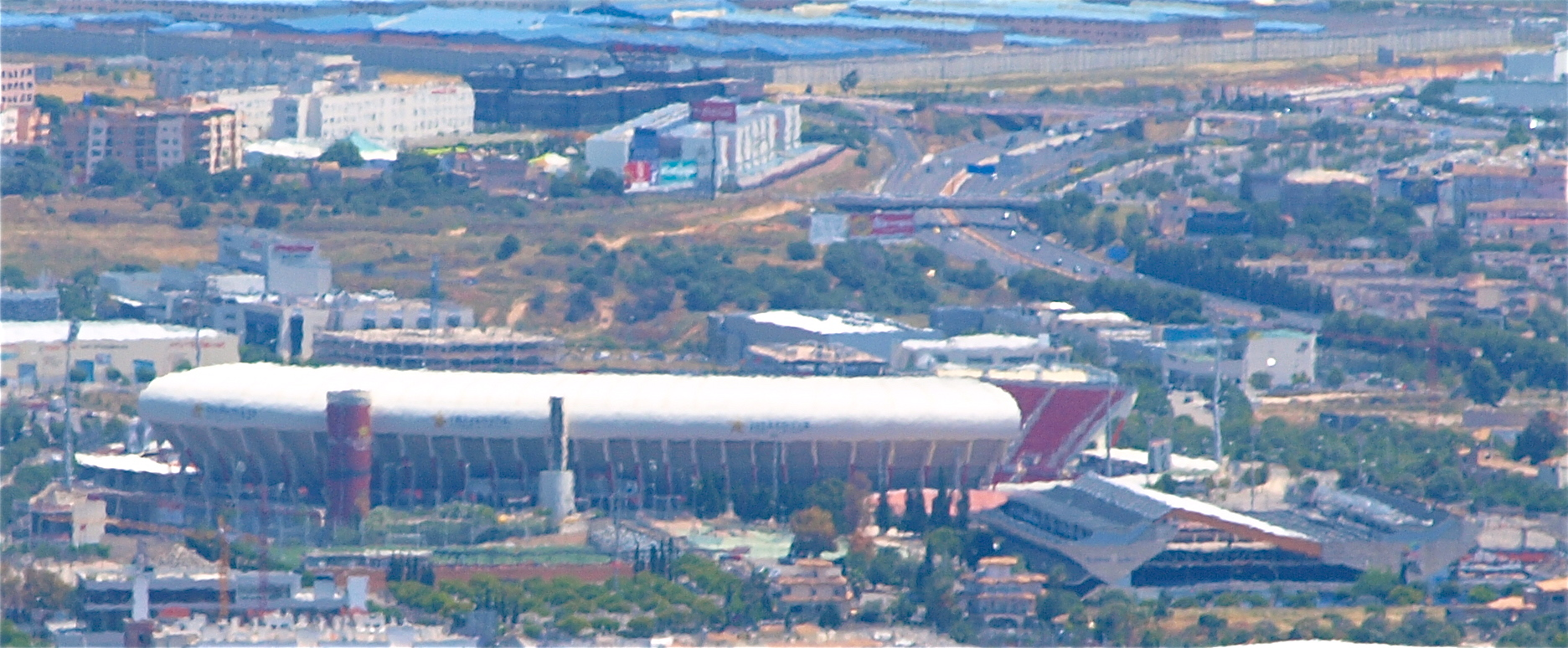 Son Moix Stadium, Palma